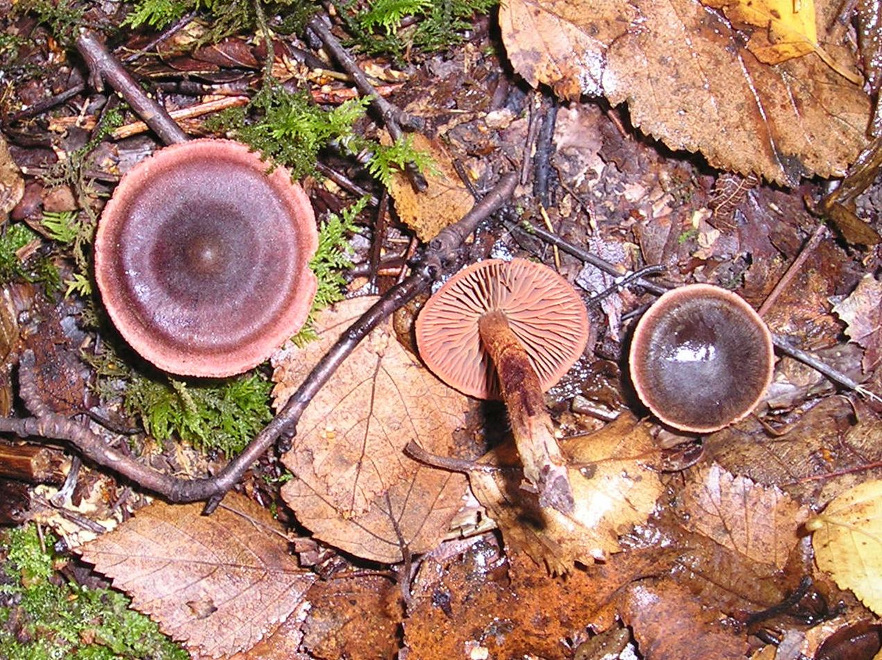 Cortinarius anthracinus in a French wood near Rambouillet.